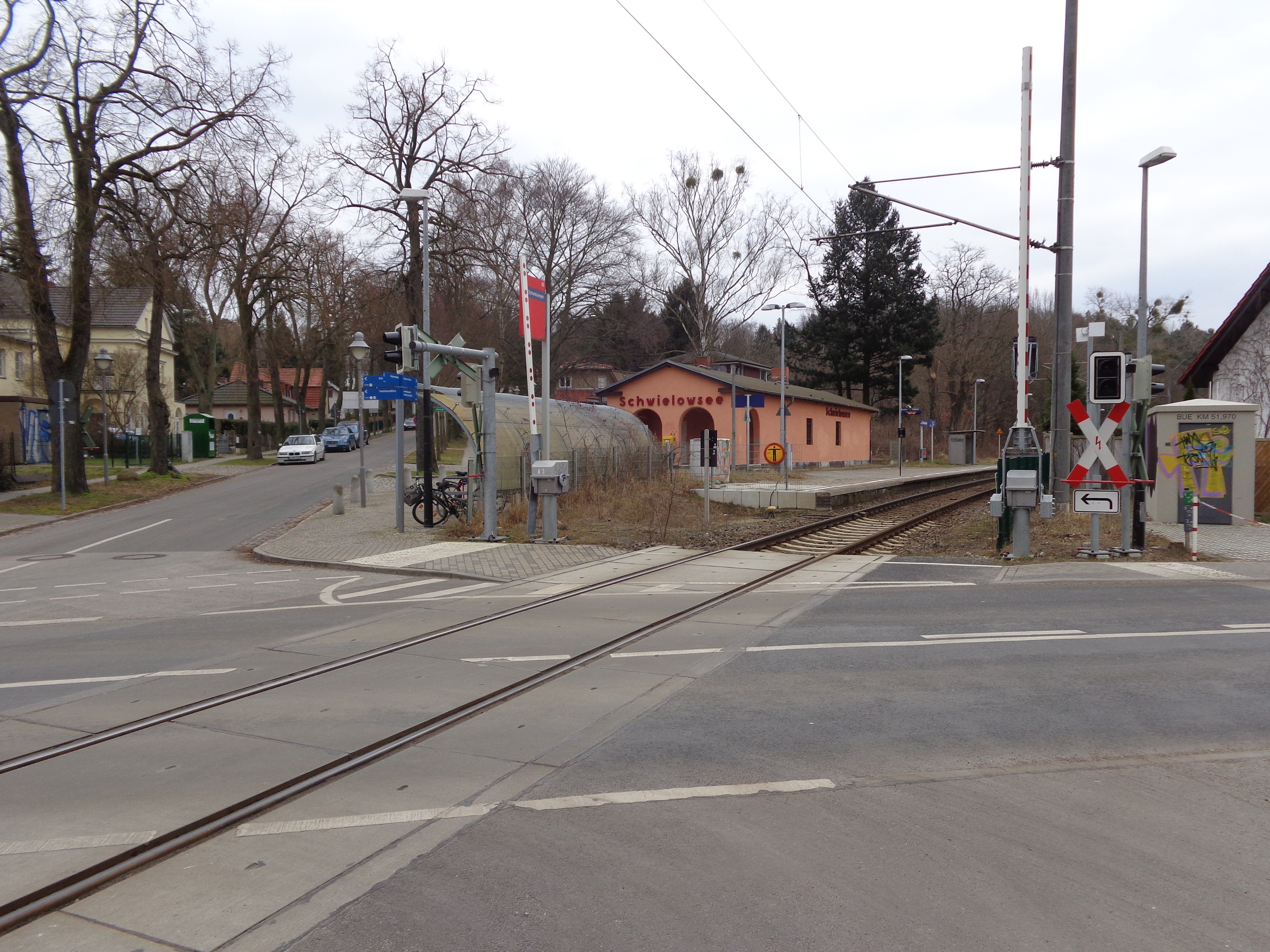 Train station Schwielowsee in Caputh, Bahnstr. 1, in February 2015.